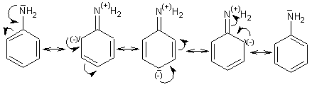 Aromatic electrophilic substitution - ortho/para direction